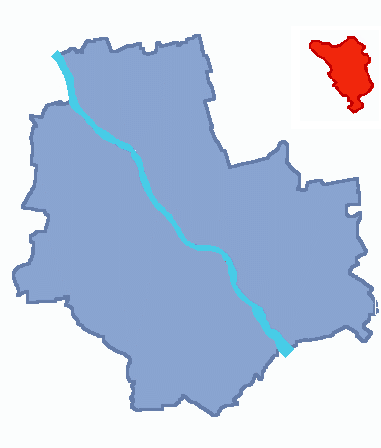 location of Wołomin (red) and Warsaw (blue)